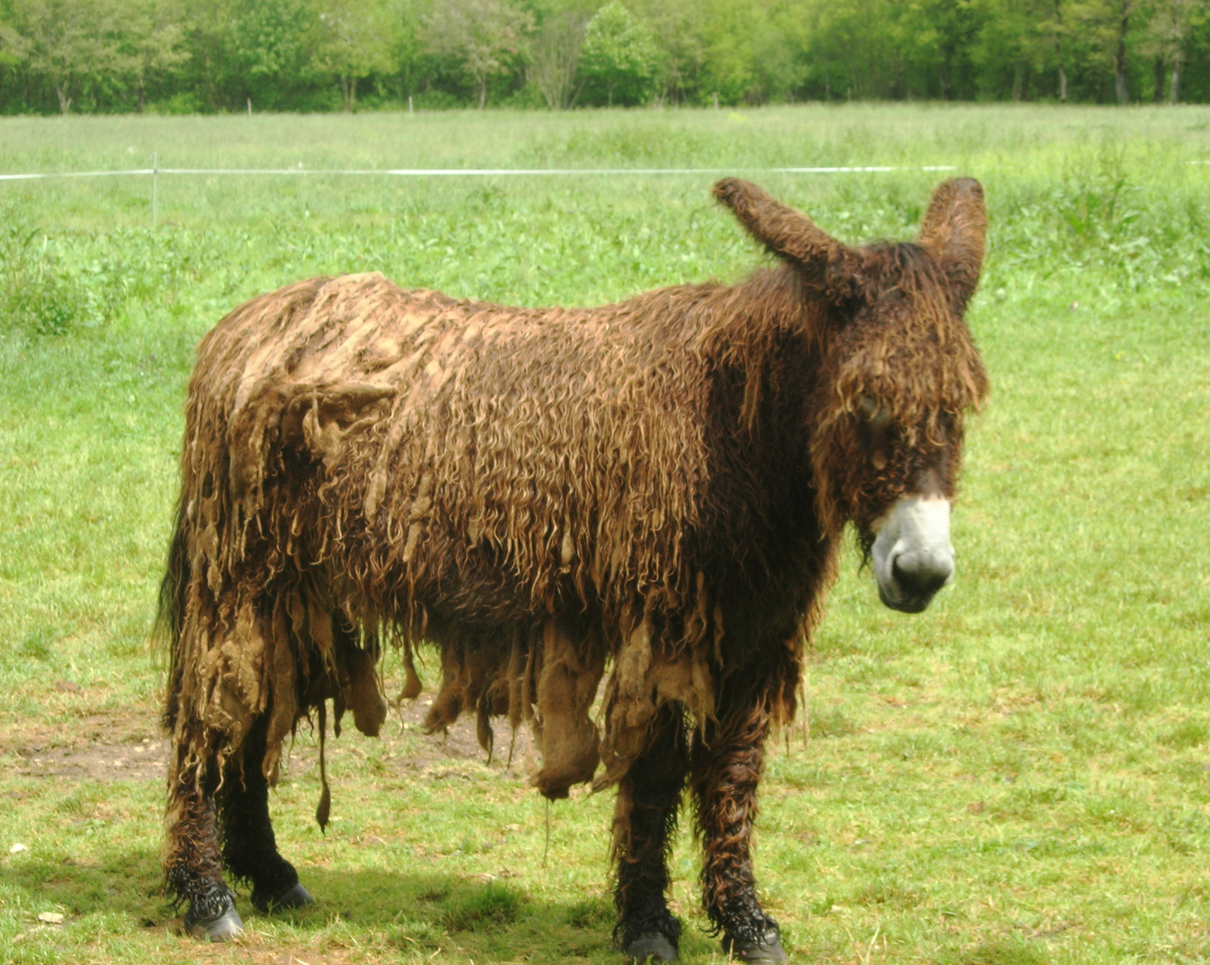 Description =Baudet du Poitou Source =Photo taken by Remi Jouan Date =Mai 2006 Author =Remi Jouan